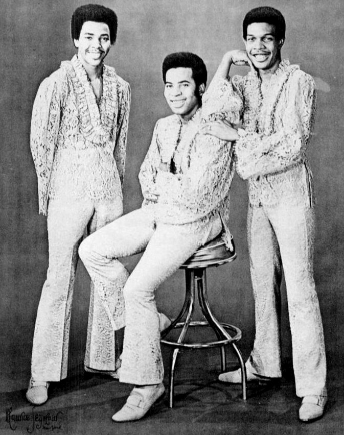 Photo of The Moments-from left: Al Goodman, Billy Brown and John Morgan, from a trade ad thanking the music industry for the success of their single "Love On a Two-Way Street".